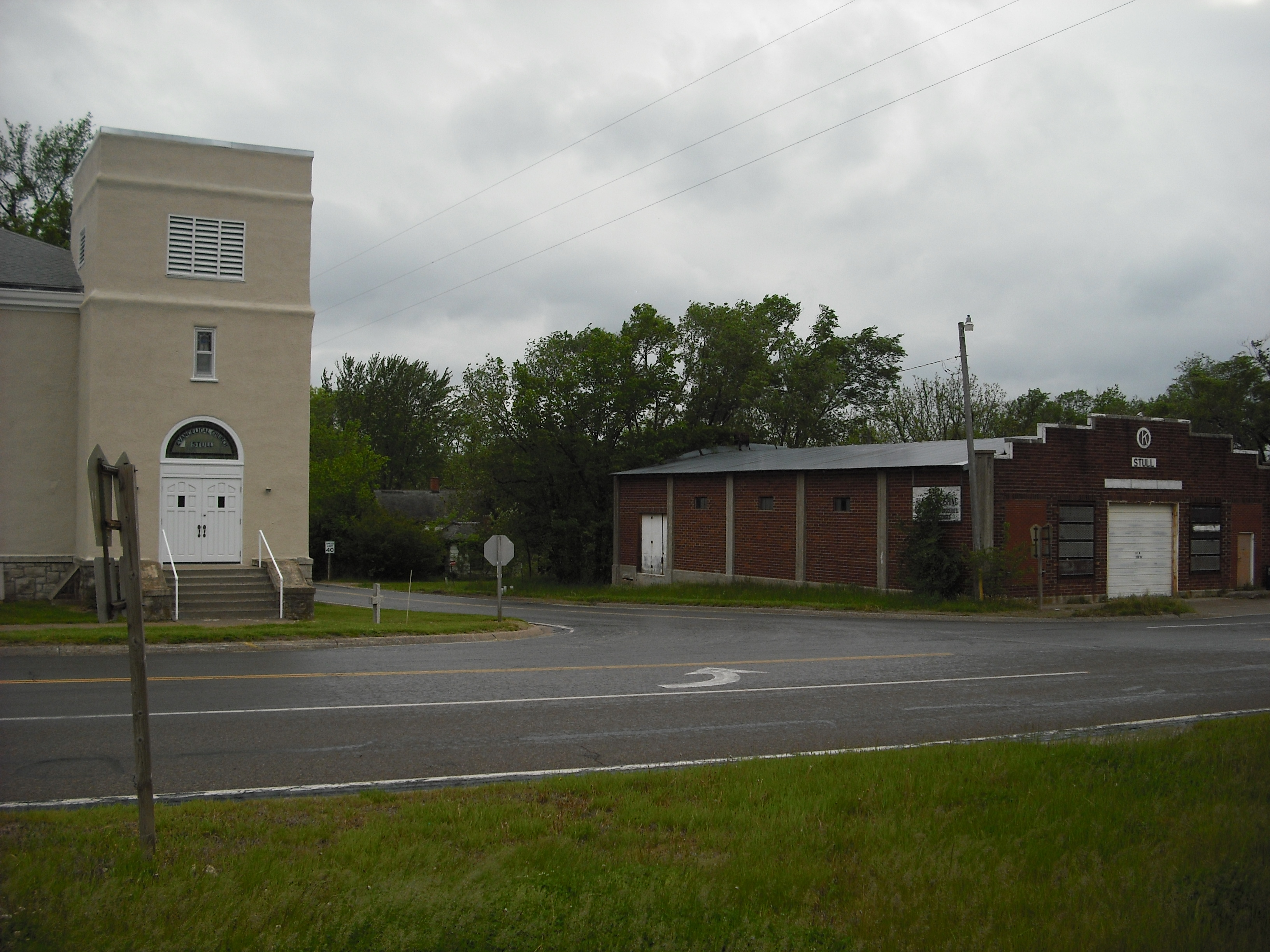 Stull intersection featuring the United Methodist Church and the now abandoned Bait Shop.